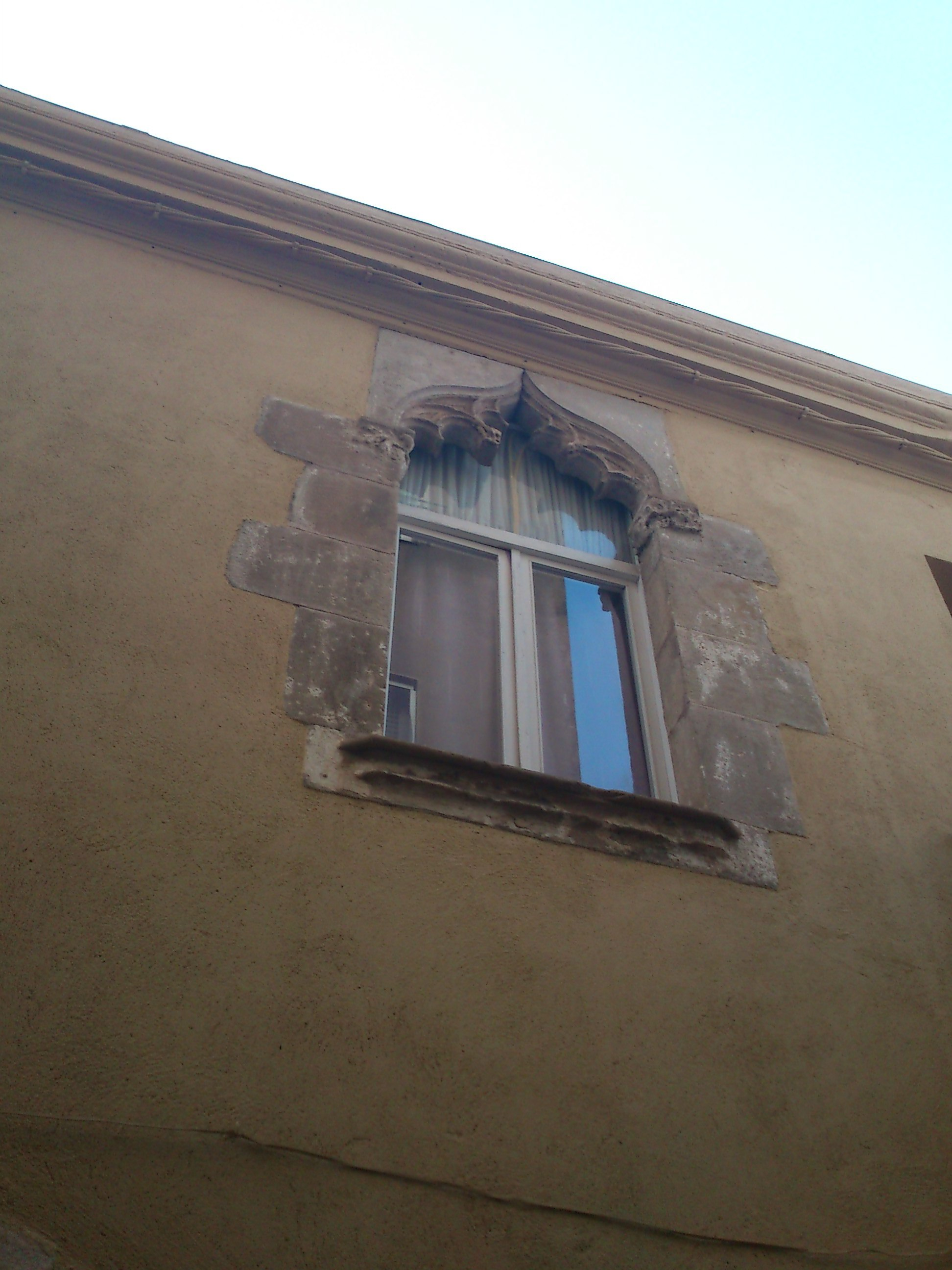 Finestra gòtica d'un habitatge al carrer de Dalt, Dalt de la Vila, Badalona